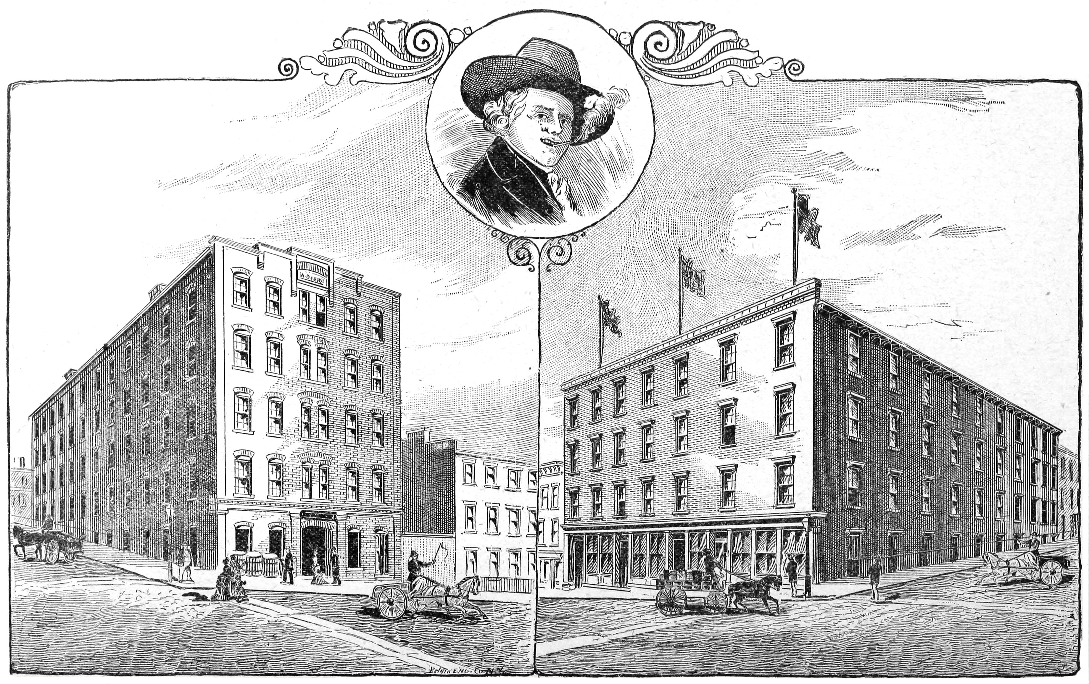 Plate captioned "Allen & Ginter Warehouses" from an 1886 promotional book of Richmond industries.